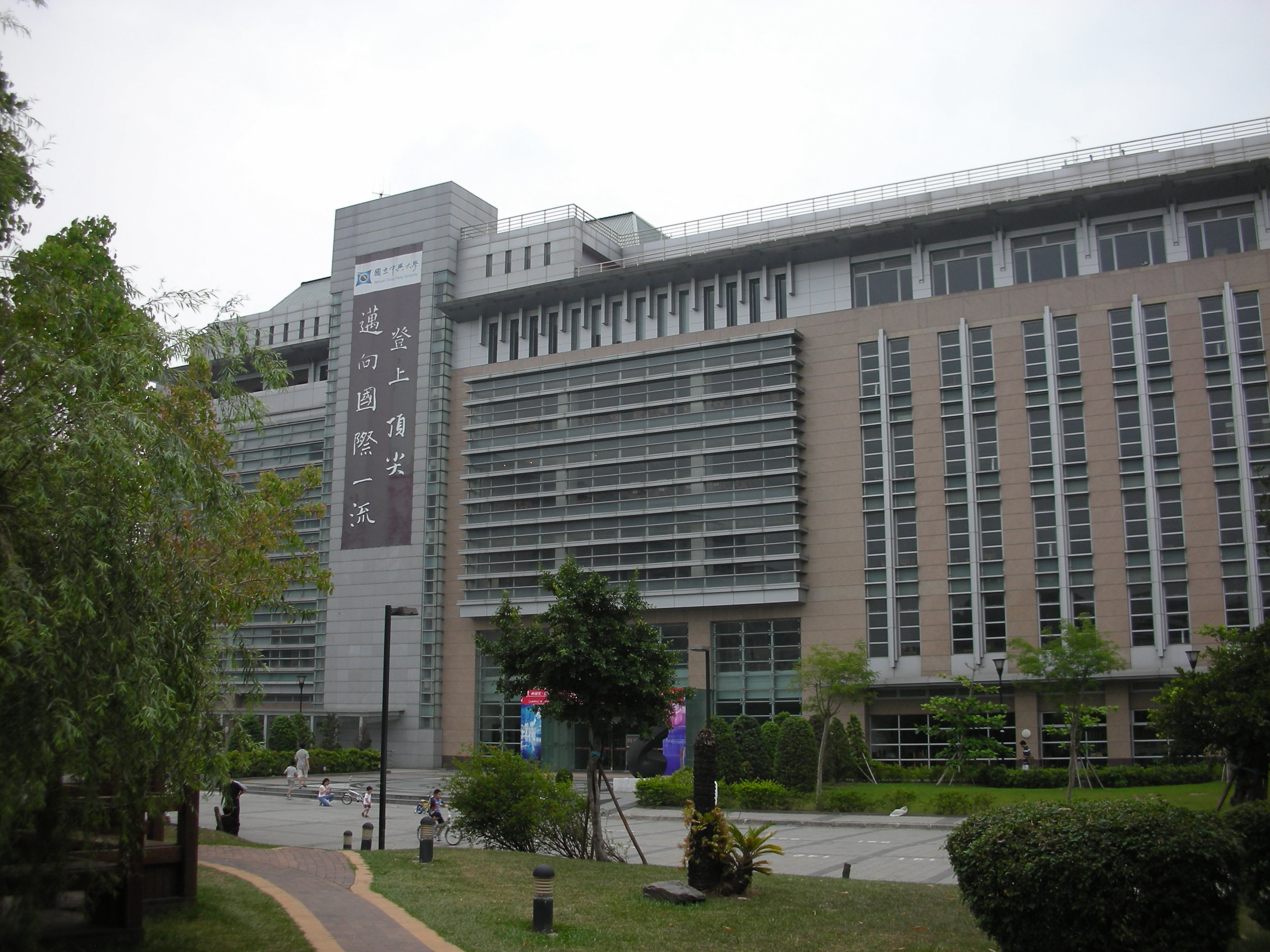 National Chung Hsing University Library